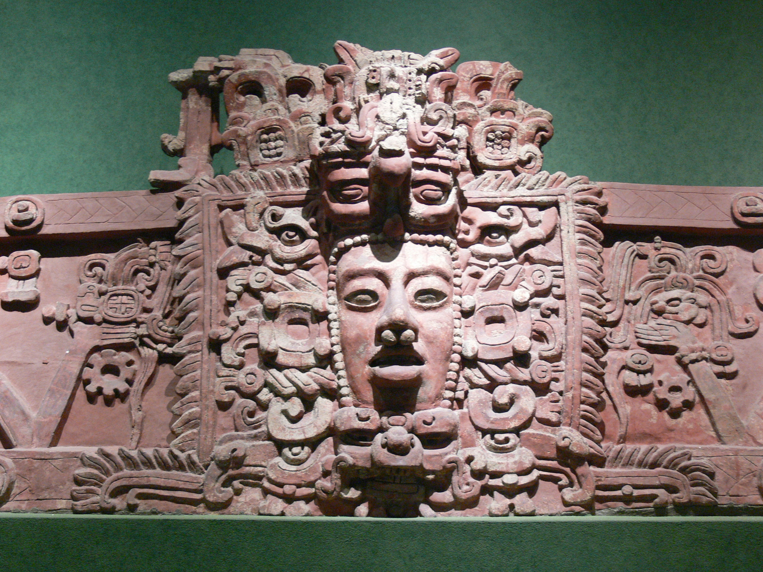 National Museum of Anthropology in Mexico City. Maya mask. Stucco frieze from Placeres, Campeche. Early Classic period (c. 250 - 600 AD. Joyce Kelly 2001 An Archaeological Guide to Central and Southern Mexico, p.105. ISBN 0-8061-3349-X.